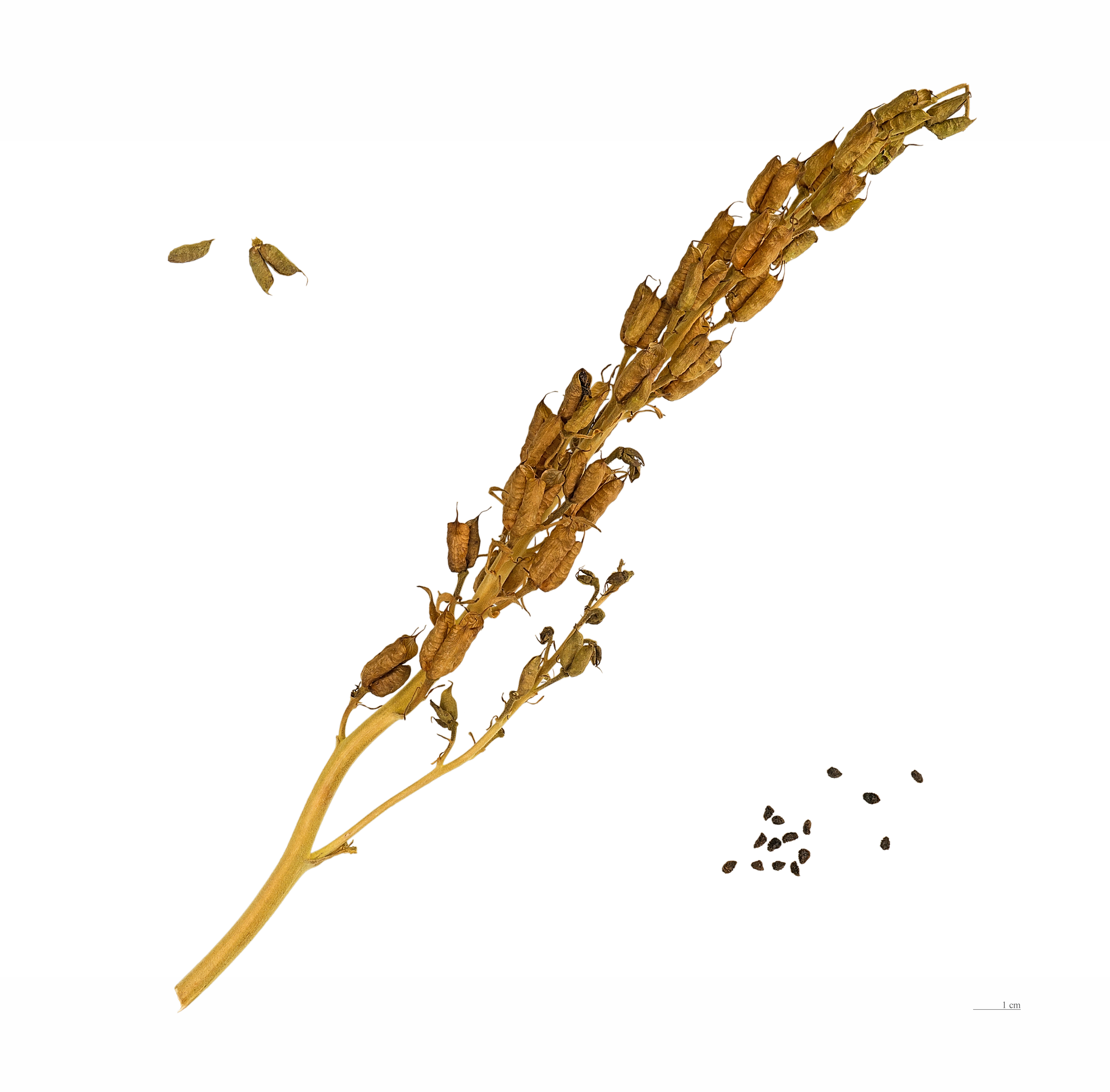 Northern wolfsbane, Follicles and seeds.